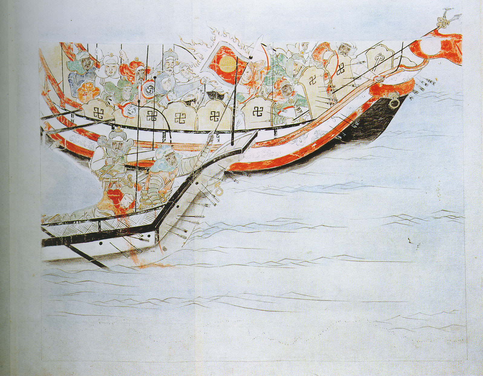 Painting scrolls on the Mongol invasions (Japanese: Mooko shuurai e-kotoba), by Fukuda Taika, 1846 (copy of a 1293 work by an unknown artist). Ink and water colors on paper. Height 47 cm, length of the whole scrolls is 12.12 m (scroll 2) and 11.96 m (scroll 4). Tokyo National Museum, Inv. no. A-1637. The scrolls deal with the deeds of Takezaki Suenaga, who lived in southern Higo (now Matsubase municipality, Kumamoto prefecture) during the Mongol invasions of 1274 and 1281.